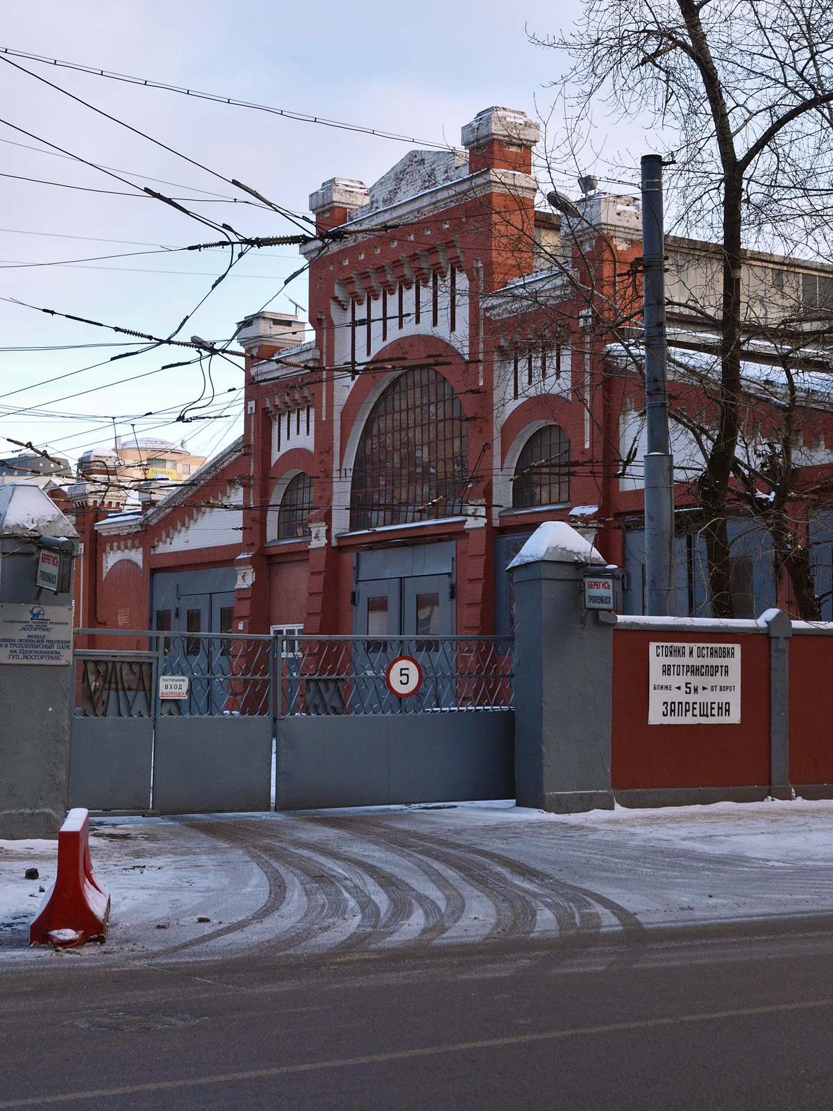 Moscow. New Year on Miusskaya Square — the old tram yard.